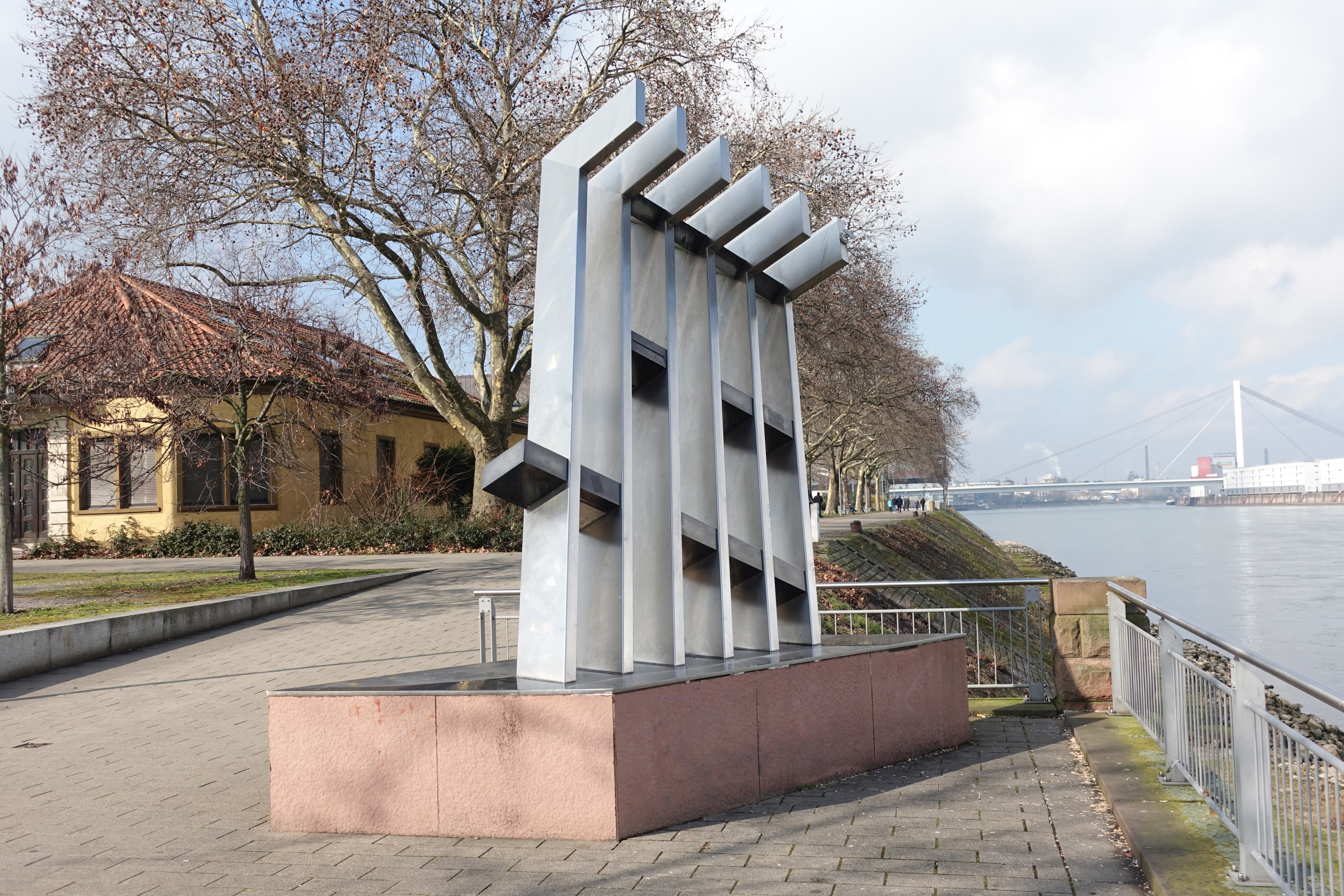 Ludwigshafen/Rhine, memorial for the historical Rhine sconce (fortification) which hat been buit at this place as a protection for the town of Mannheim, at the opposite side of the Rhine.